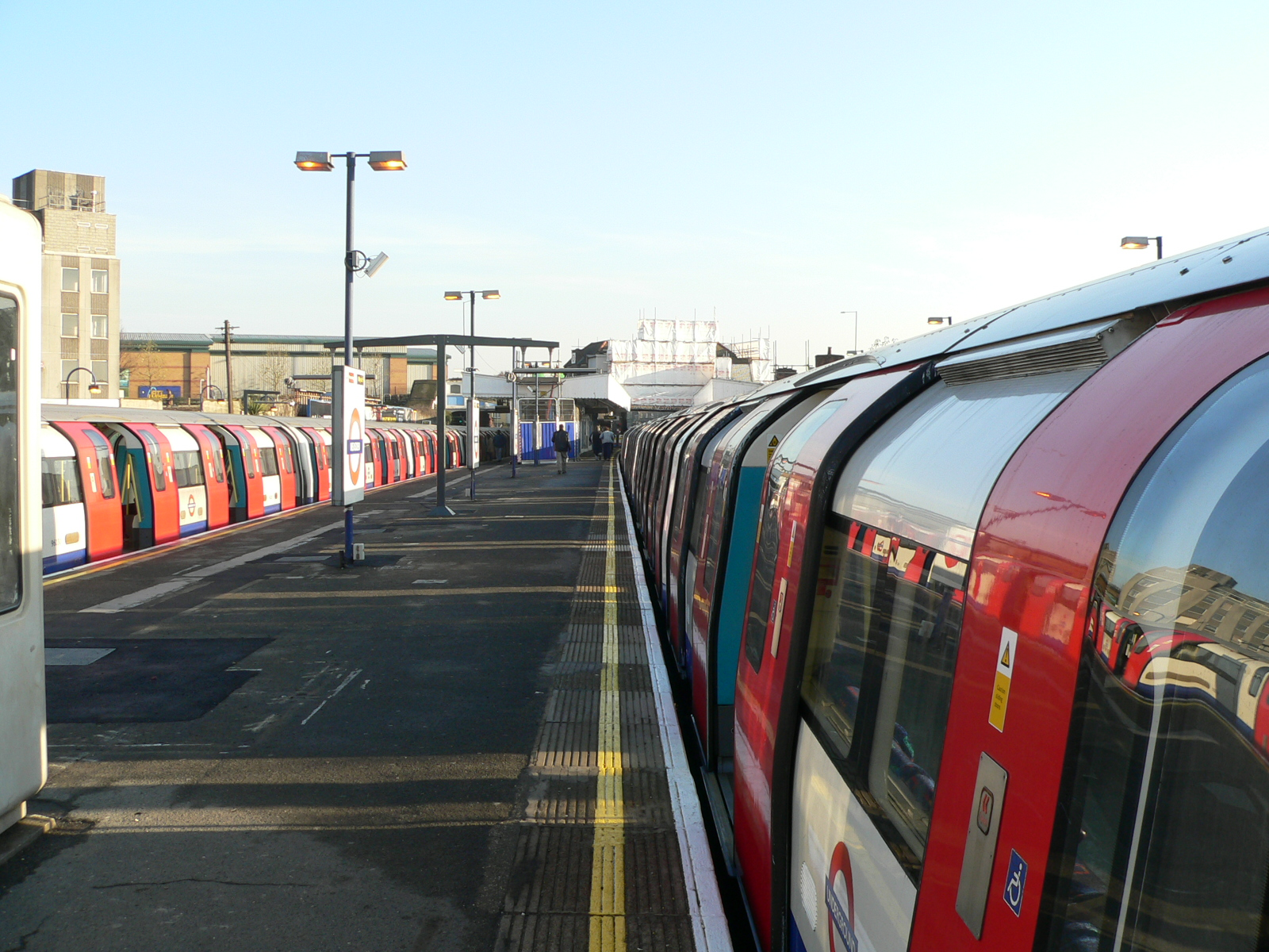 Two Jubilee Line 1996 tube stock trains at Neasden tube station.